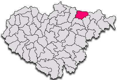 Map Salaj County Romania